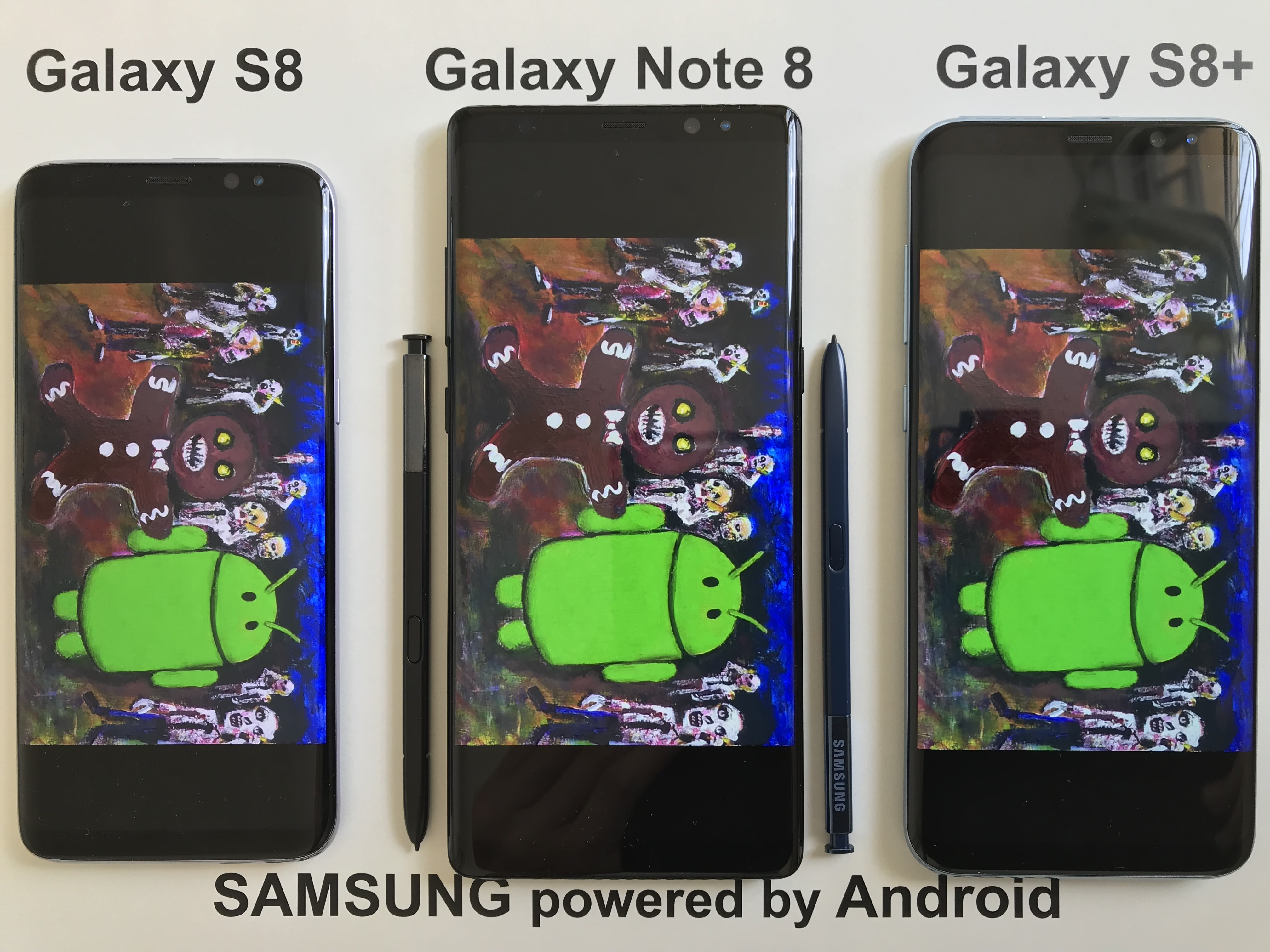 Android 2.3 Gingerbread